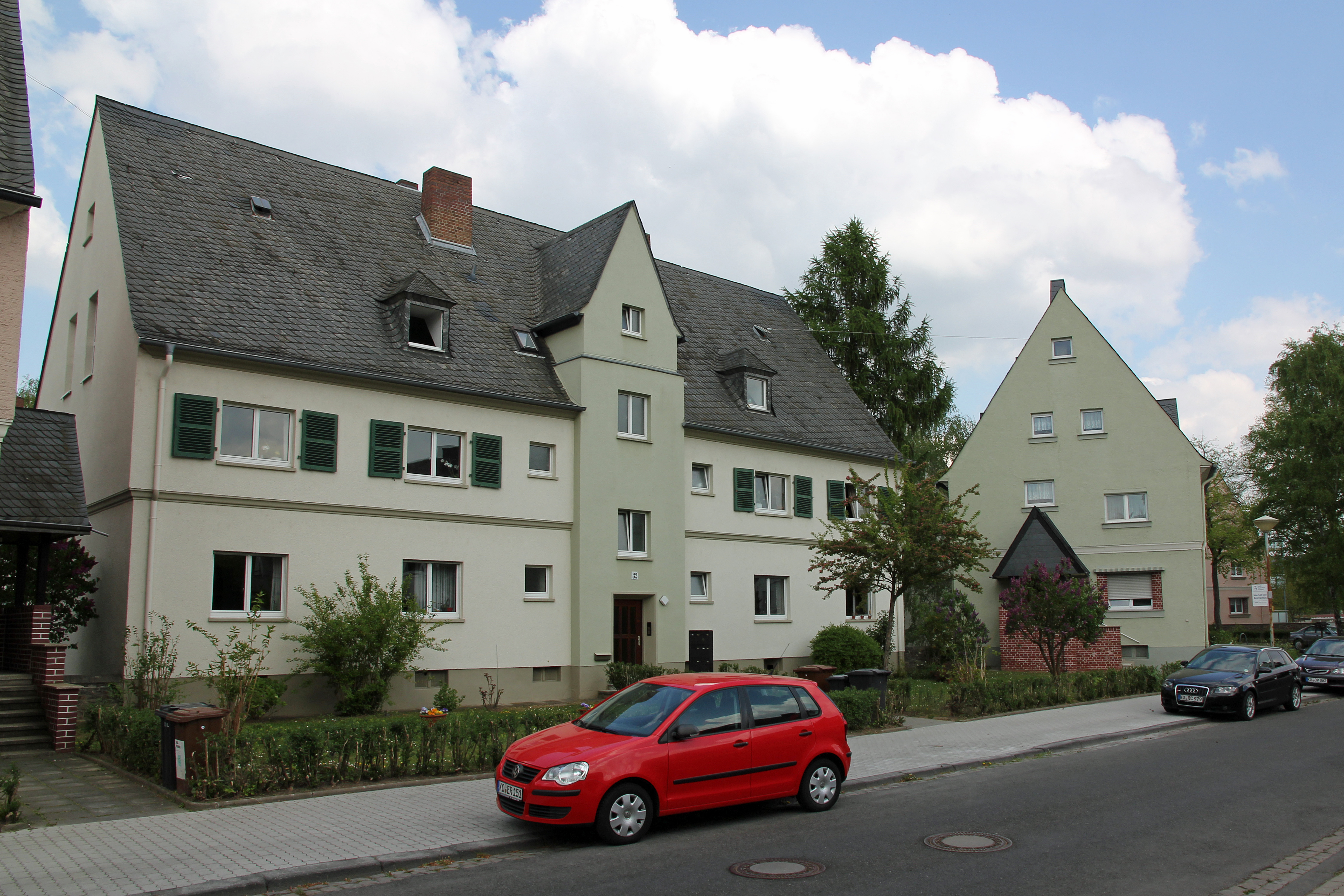 Beamtensiedlung Oberwerth in Koblenz